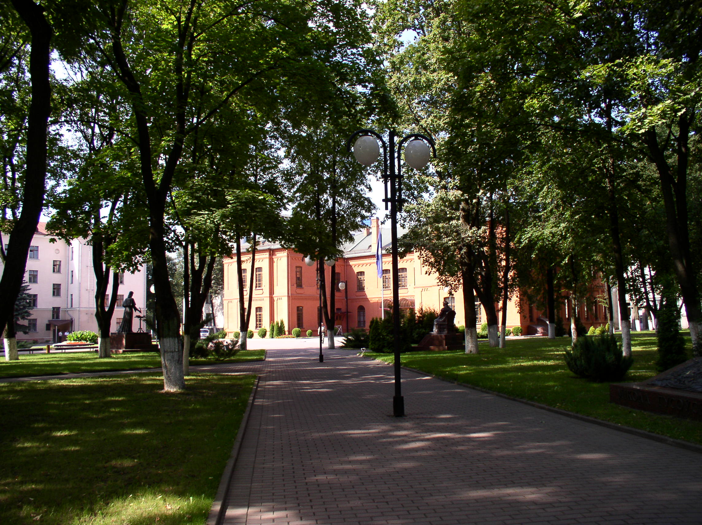 Rector's Office. Belarusian State University, Minsk, Belarus.